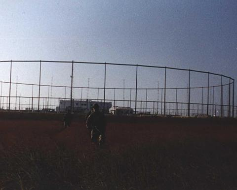 Seen as MCSF Co. Panama- Marines step of on night time security patrol of area.